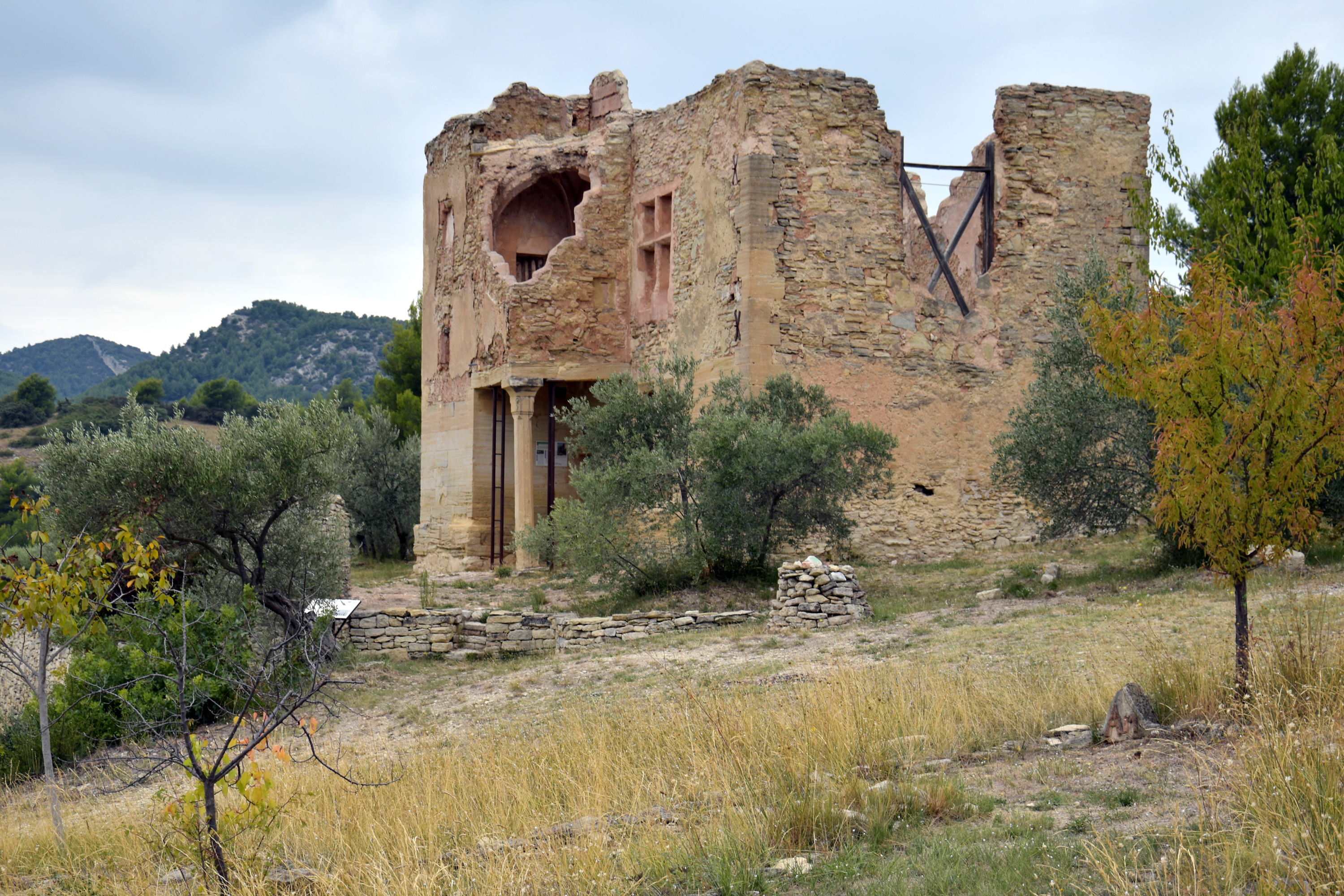 Pré fantasi (Caromb)